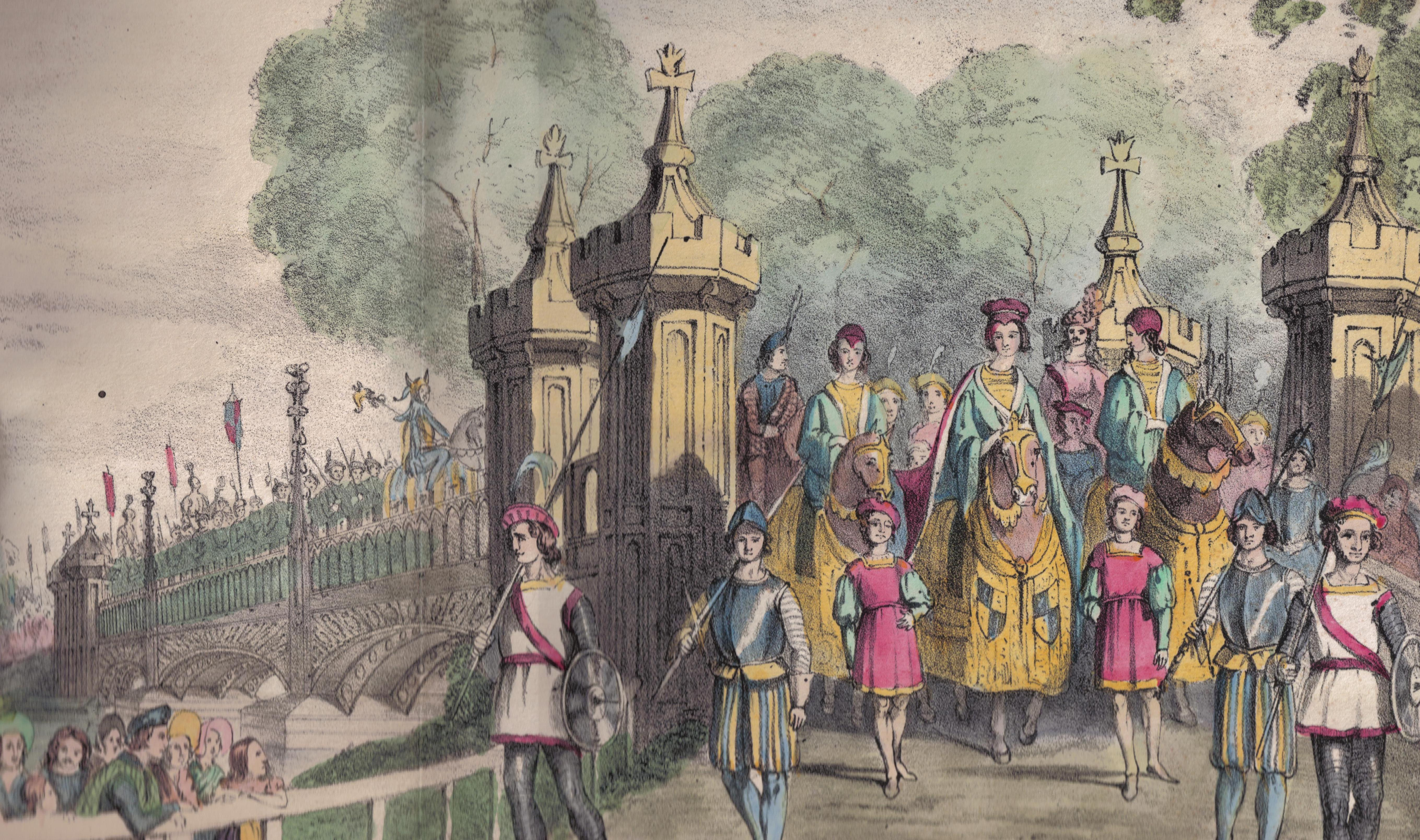 The Eglinton Tournament Bridge with the procession. Irvine, Ayrshire.